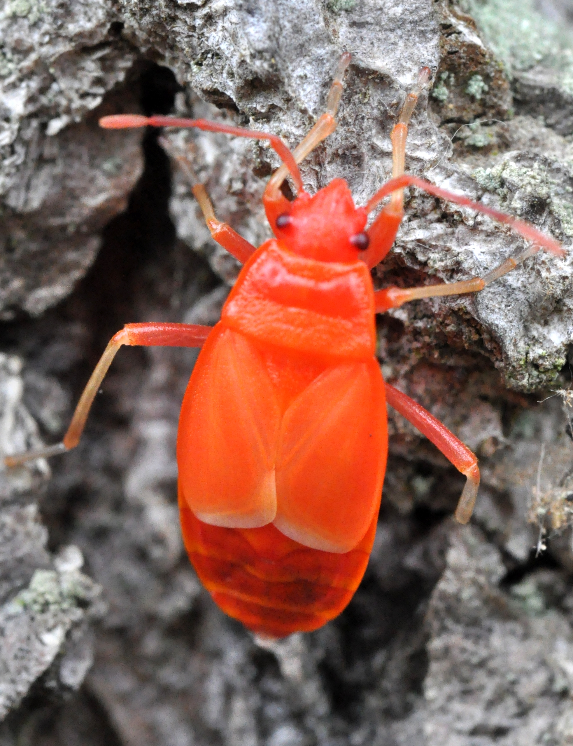 Nymph of a Firebug (Pyrrhocoris apterus)